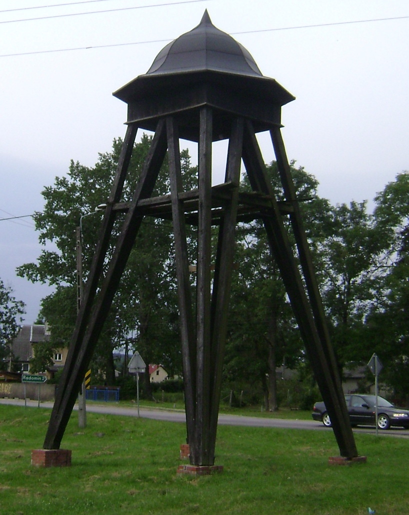 Napiwoda